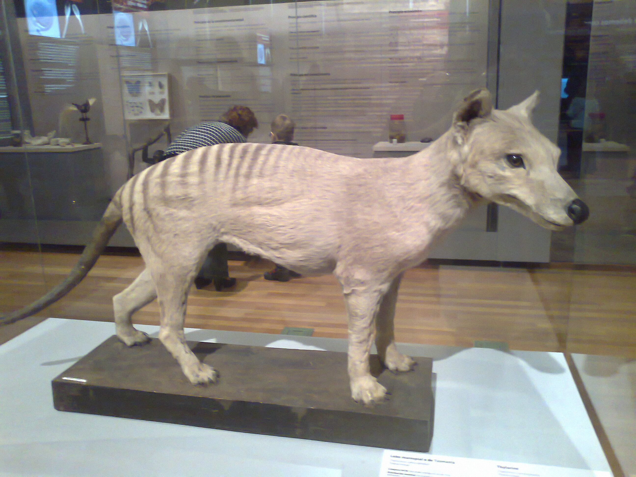 Taxidermed Thylacine (Thylacinus cynocephalus) at National Museum of Natural History, Madrid.